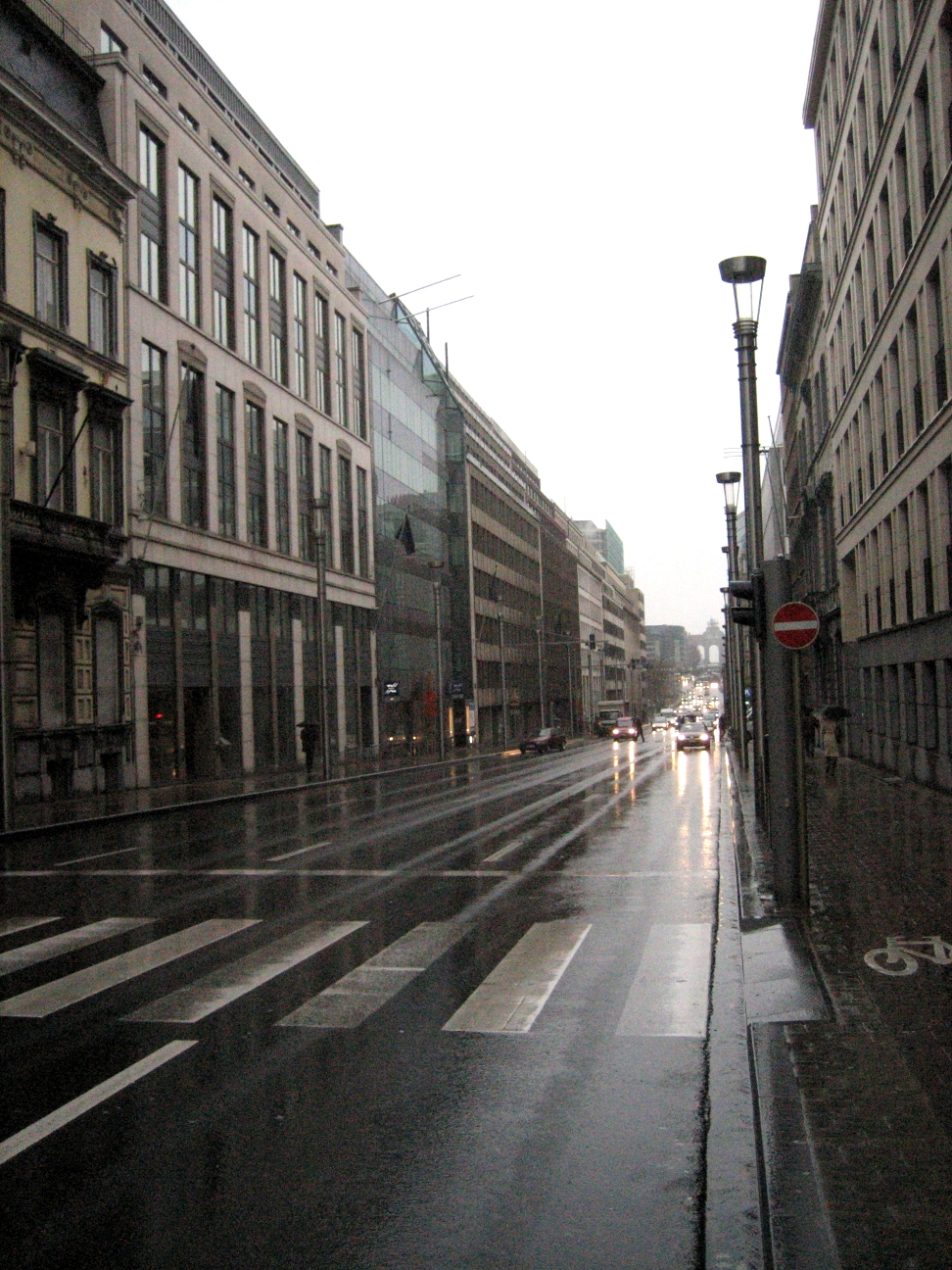 View of the Rue de la Loi (Wetstraat) in Brussels (Belgium).